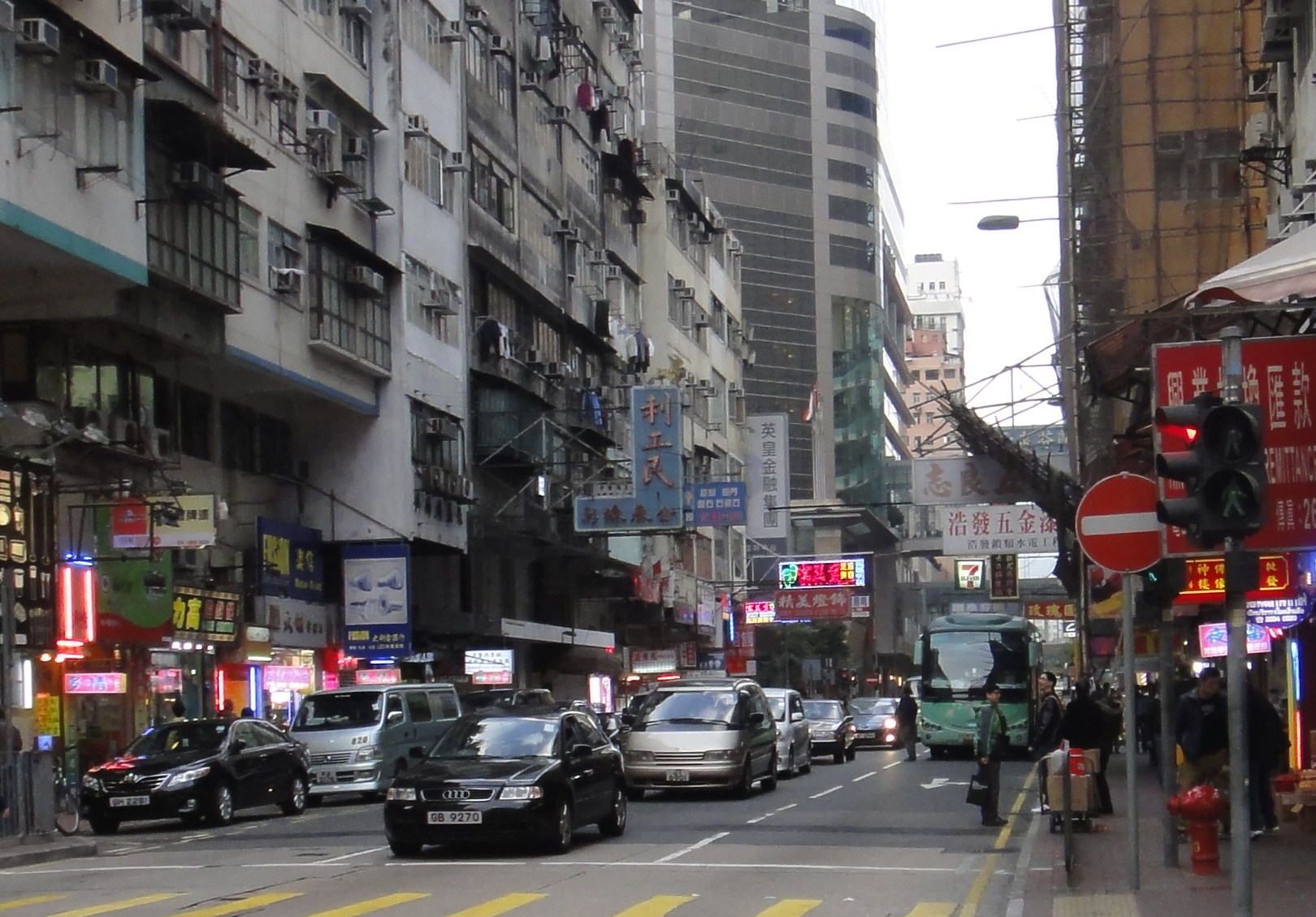 Red Lights